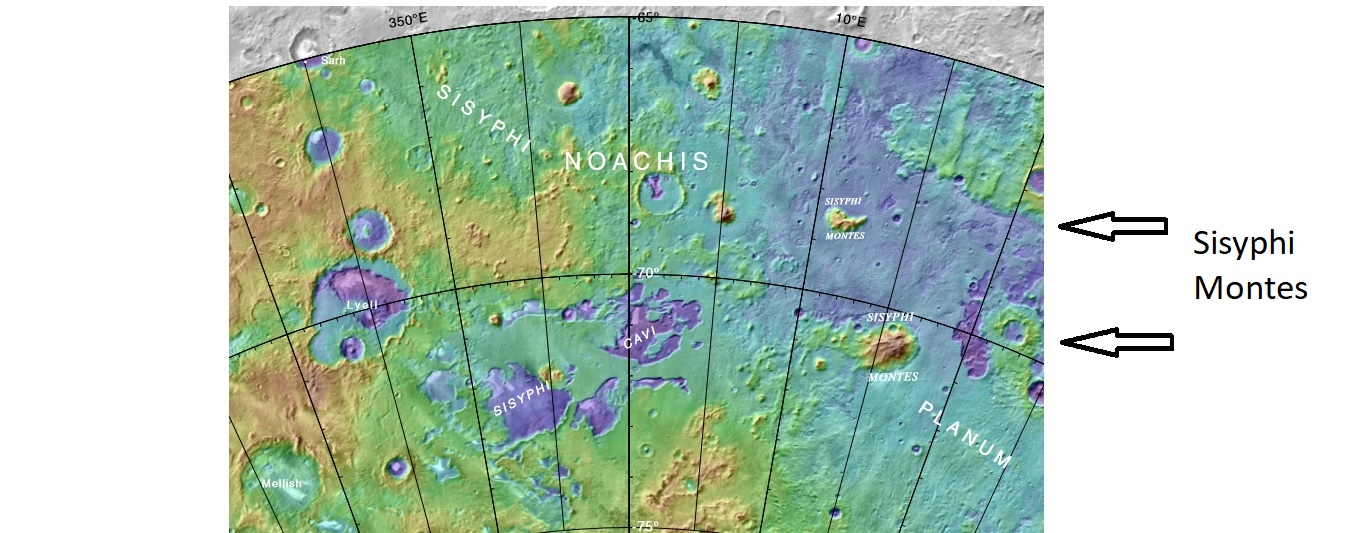 Topographic map of south pole region showing Sisyphi Montes and other nearby features